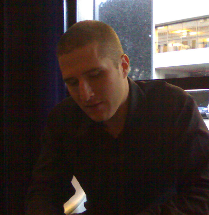 Shawn Fanning, developer of Napster and Rupture.